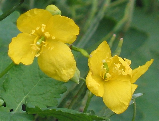 greater celandine